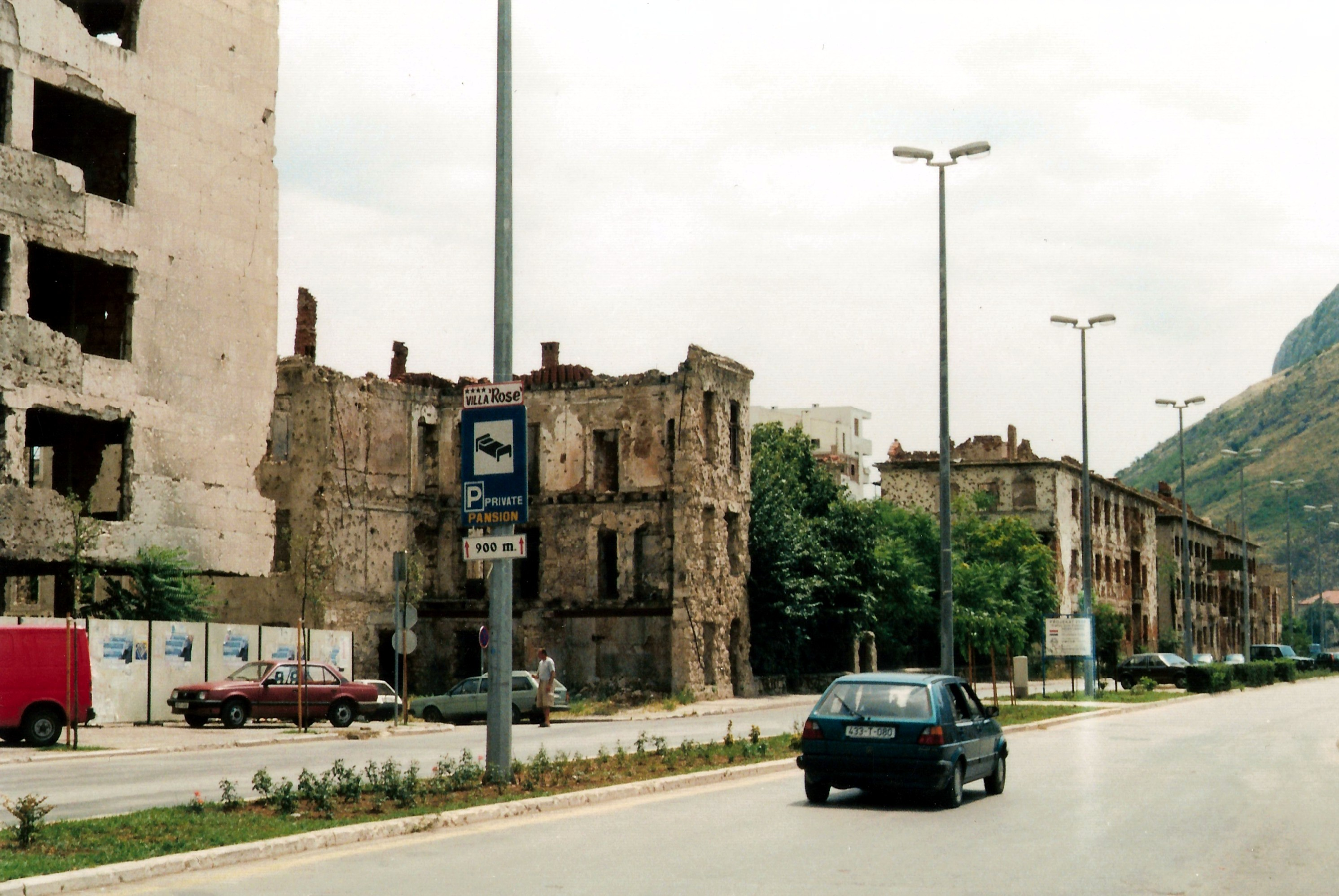 Damaged houses in Mostar (the west bank (Croat)) . Damage is from the Bosnian War. Geolocation is a guess. Scan from a conventional photo. Enhanced with The Gimp.